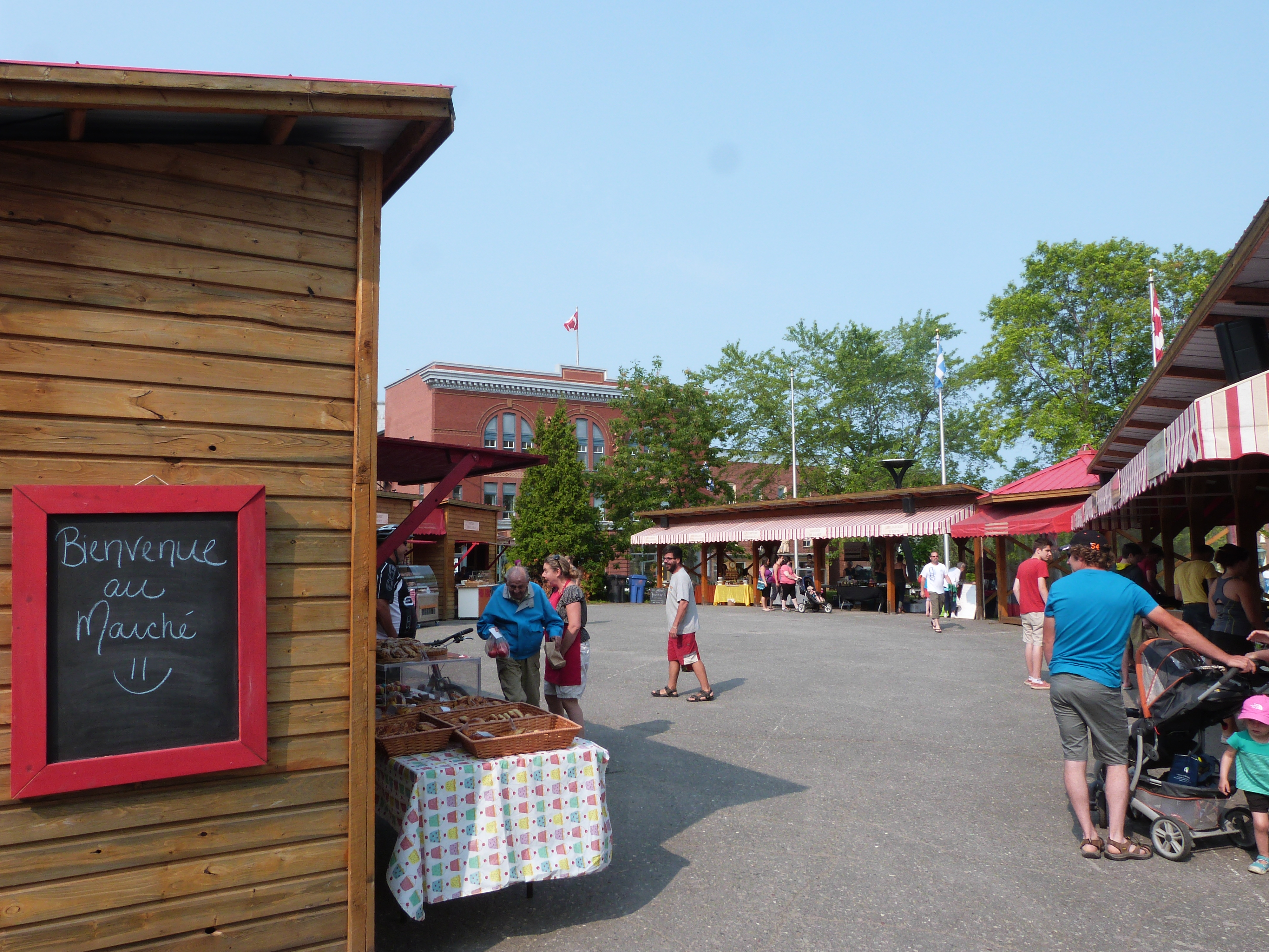 Farmer's market in Rivière-du-Loup, Québec